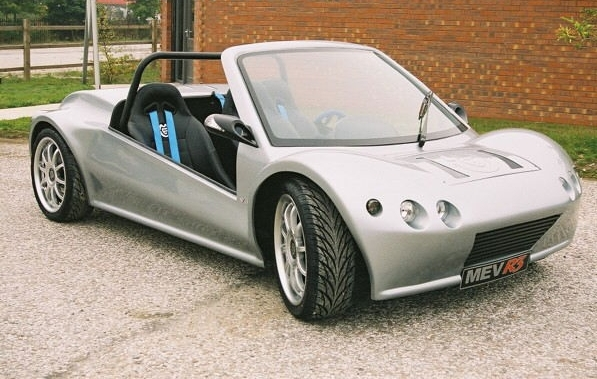 Front three-quarter view of MEV R3 kit car